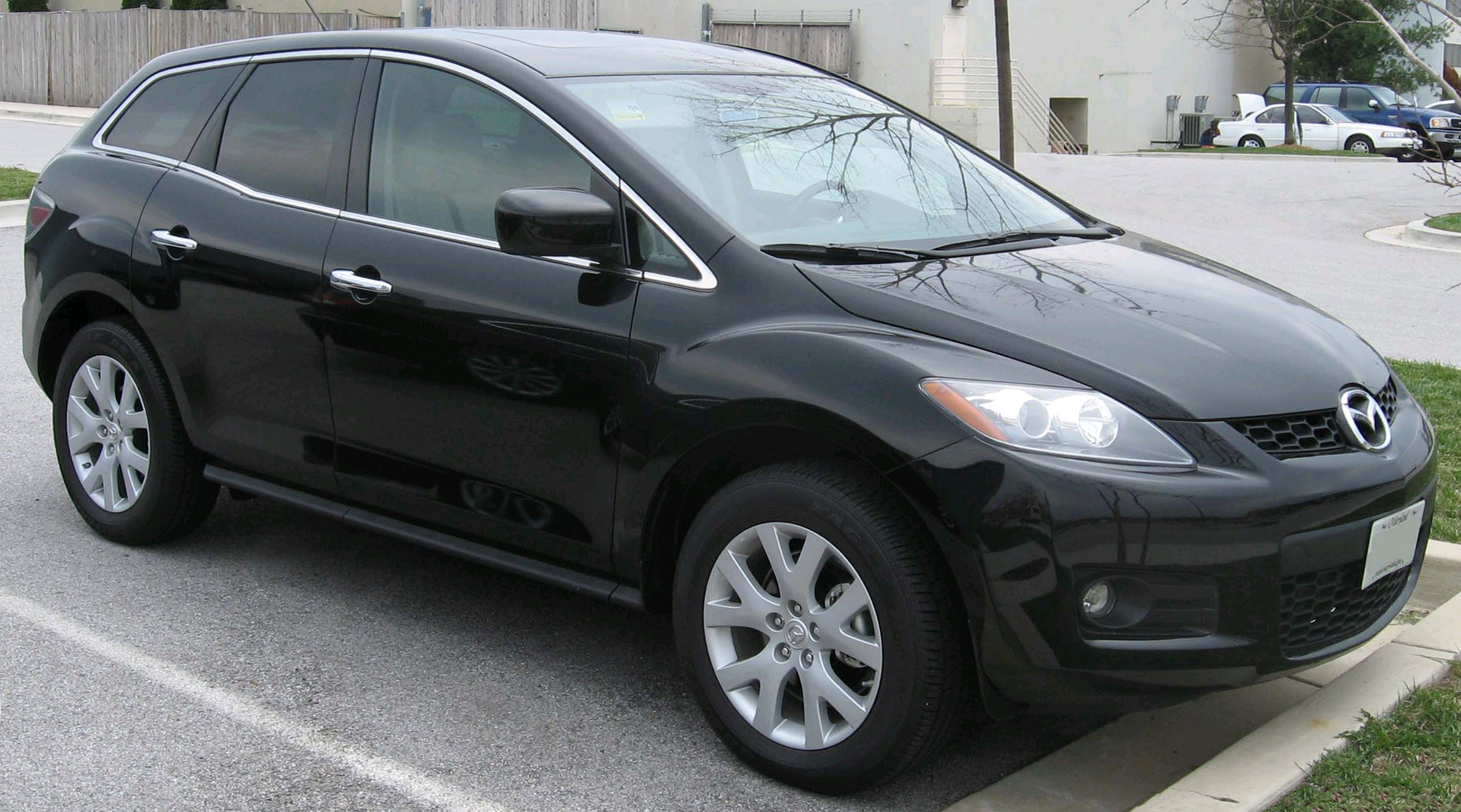 2007 Mazda CX-7 photographed in College Park, Maryland, USA.